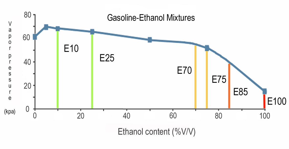 This graph shows the relationship between the ethanol content in a fuel blend with vapor pressure. Data to built the graph taken from